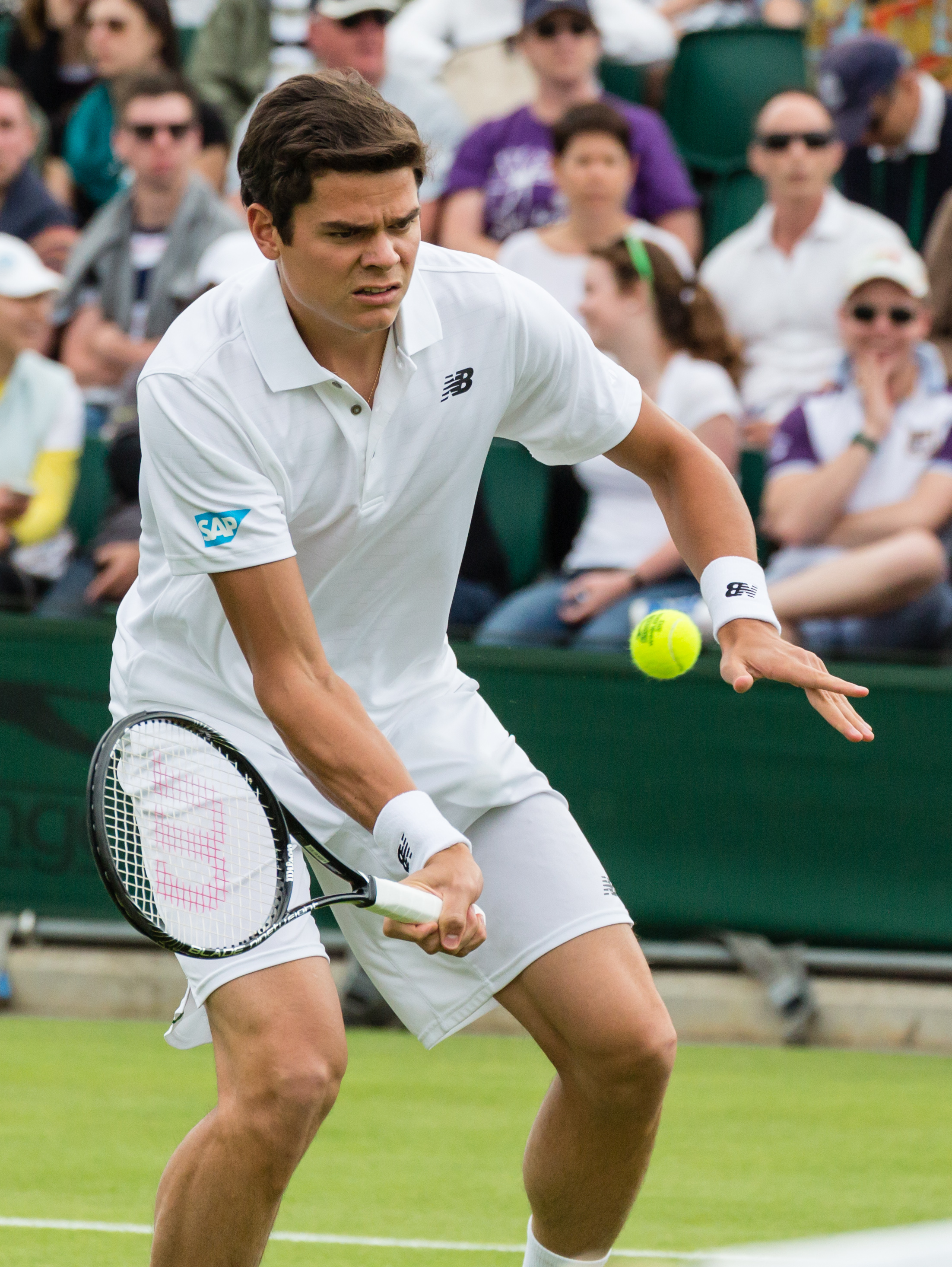 Milos Raonic at the 2013 Wimbledon Championship.